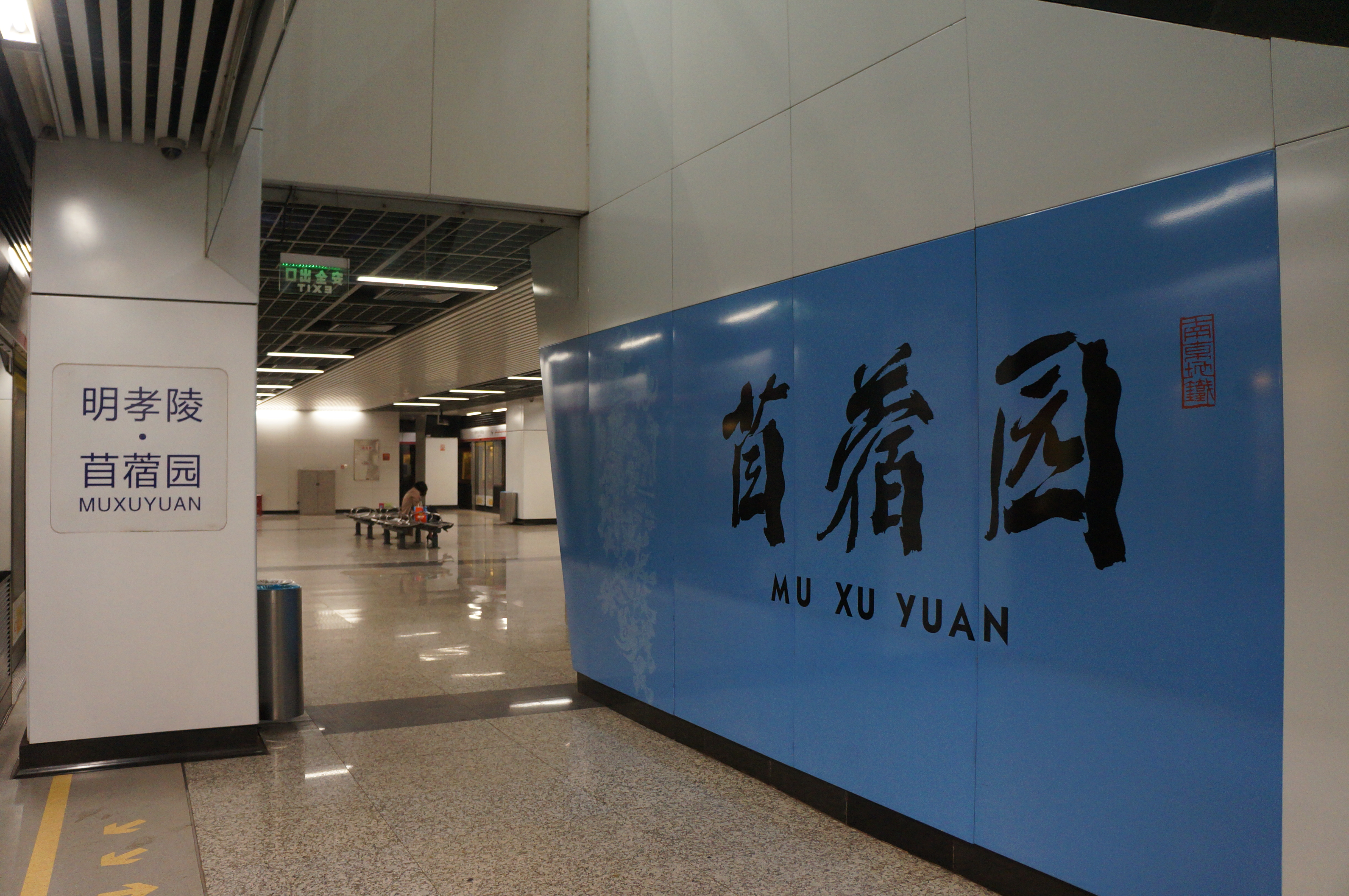 201704 Nameboard of Mingxiaoling.Muxuyuan Station